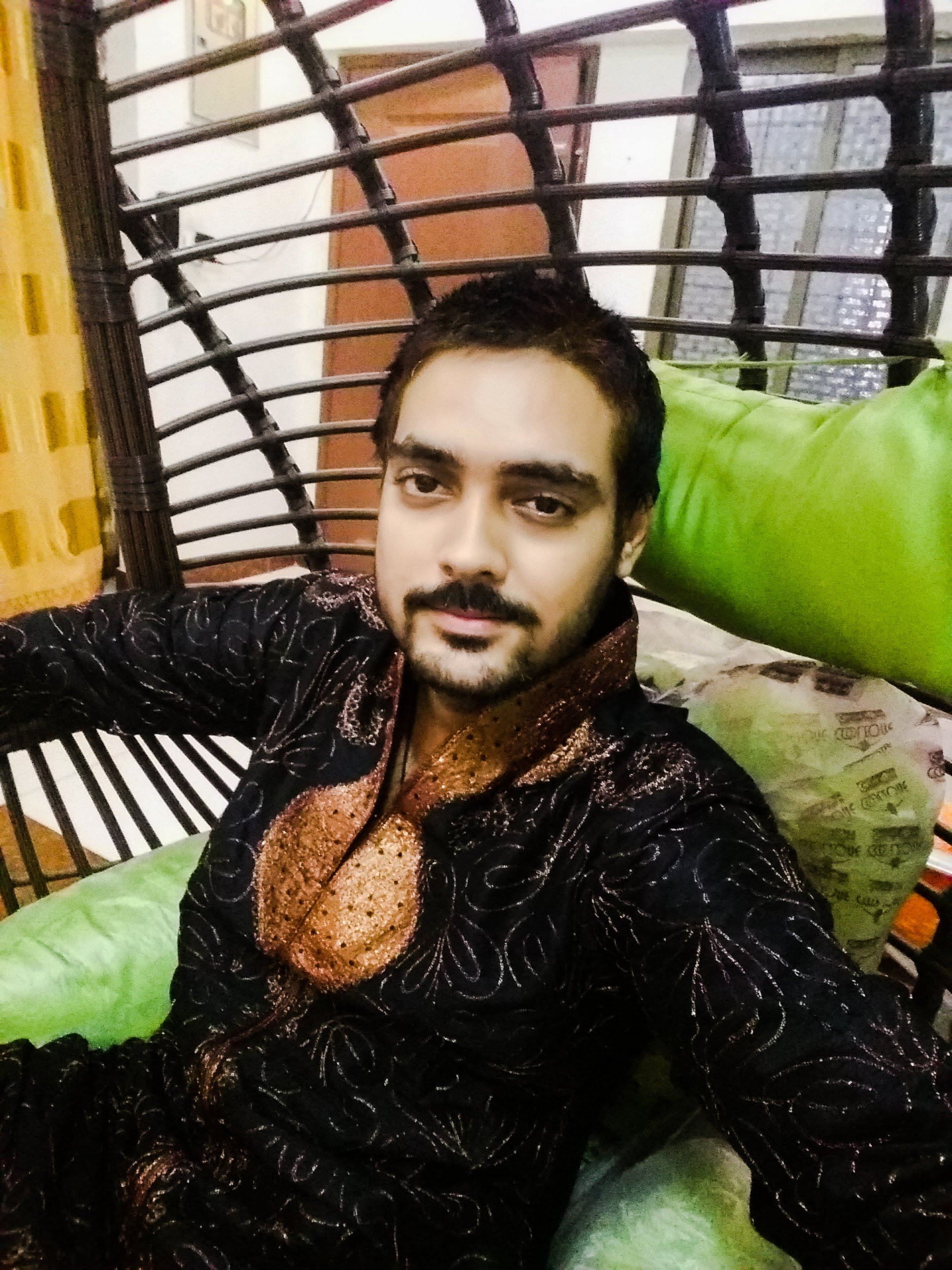 Pakistani Filmmaker DJ Kamal Mustafa